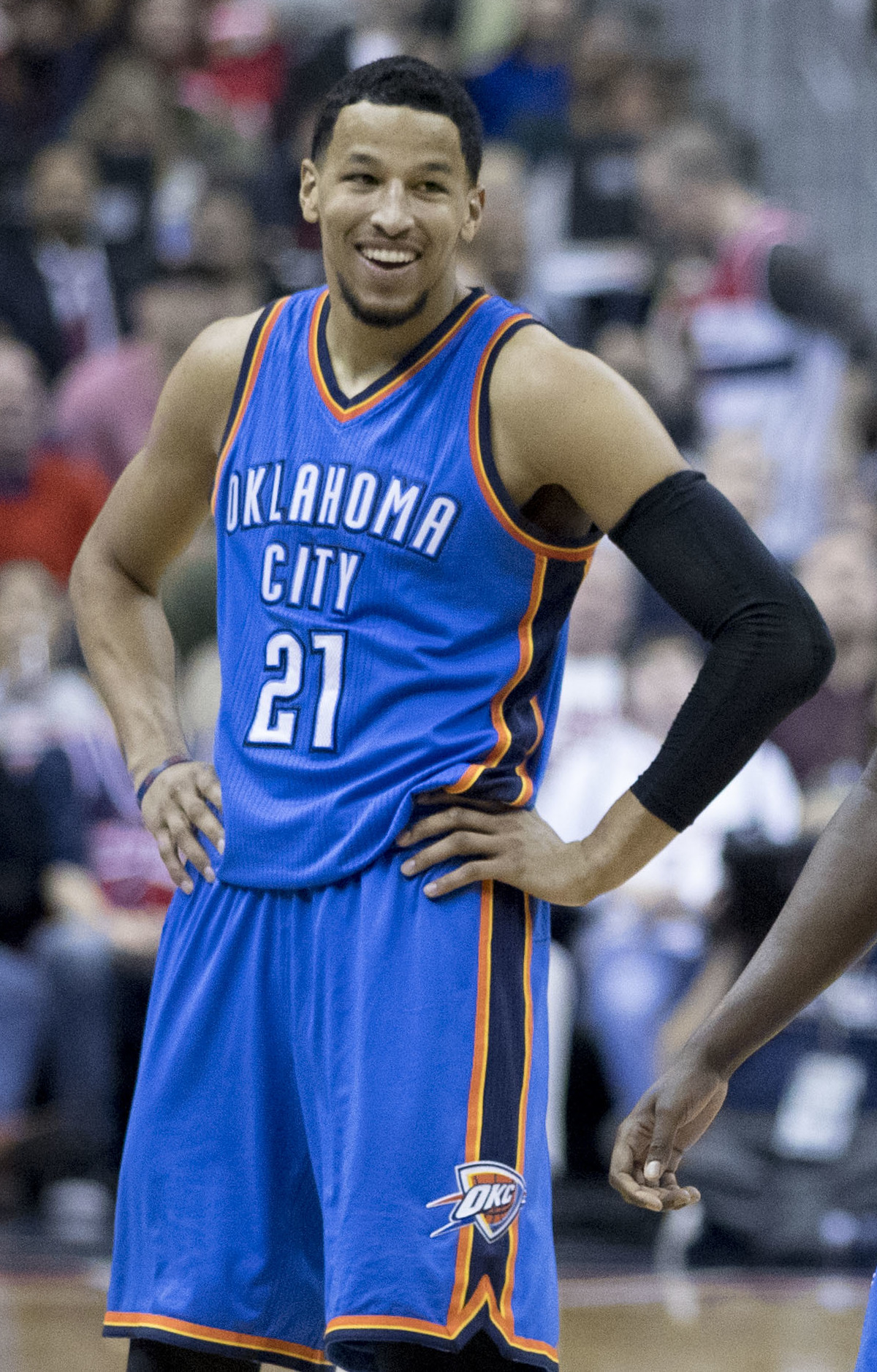 Thunder at Wizards 2/13/17